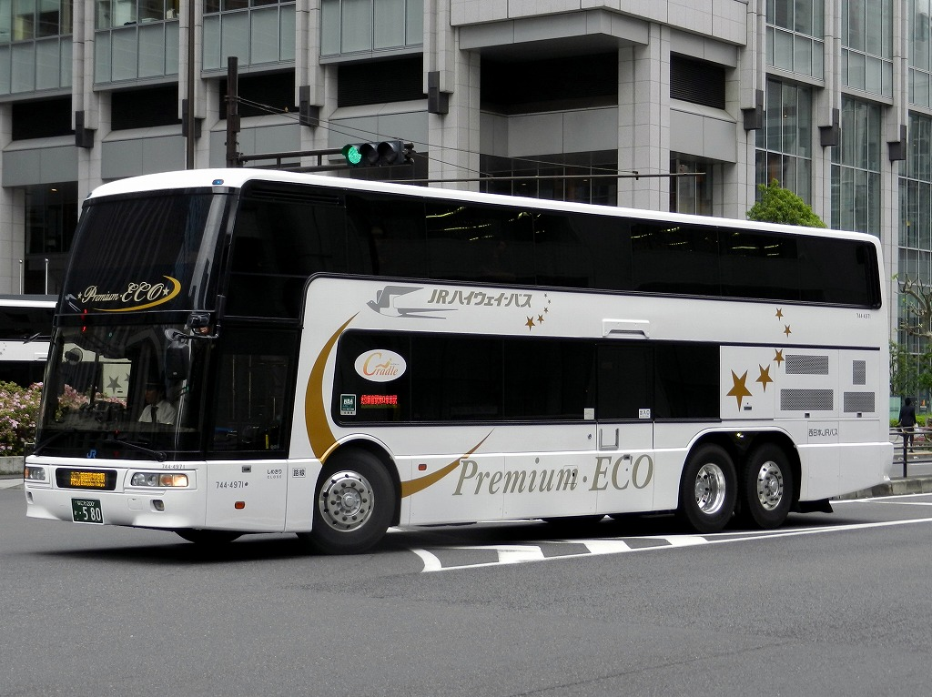 Nishinihon JR bus Mitsubishi Fuso Aero King(MU612TX)Highwaybus "Dream" 3gread bus